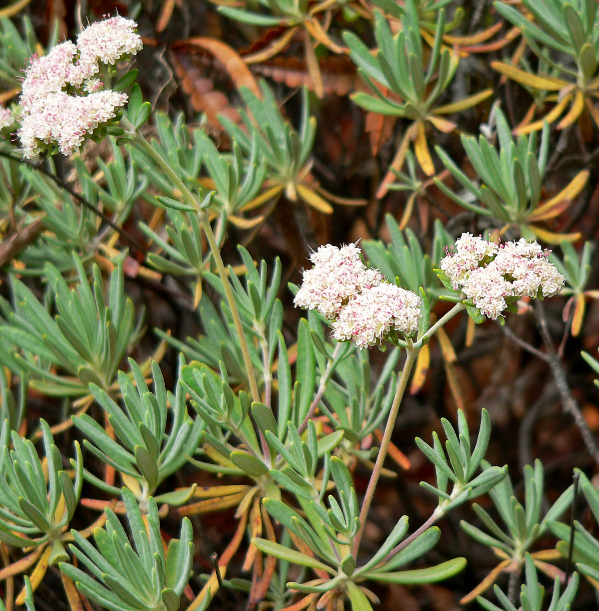 Photo of Eriogonum arborescens at the Regional Parks Botanic Garden